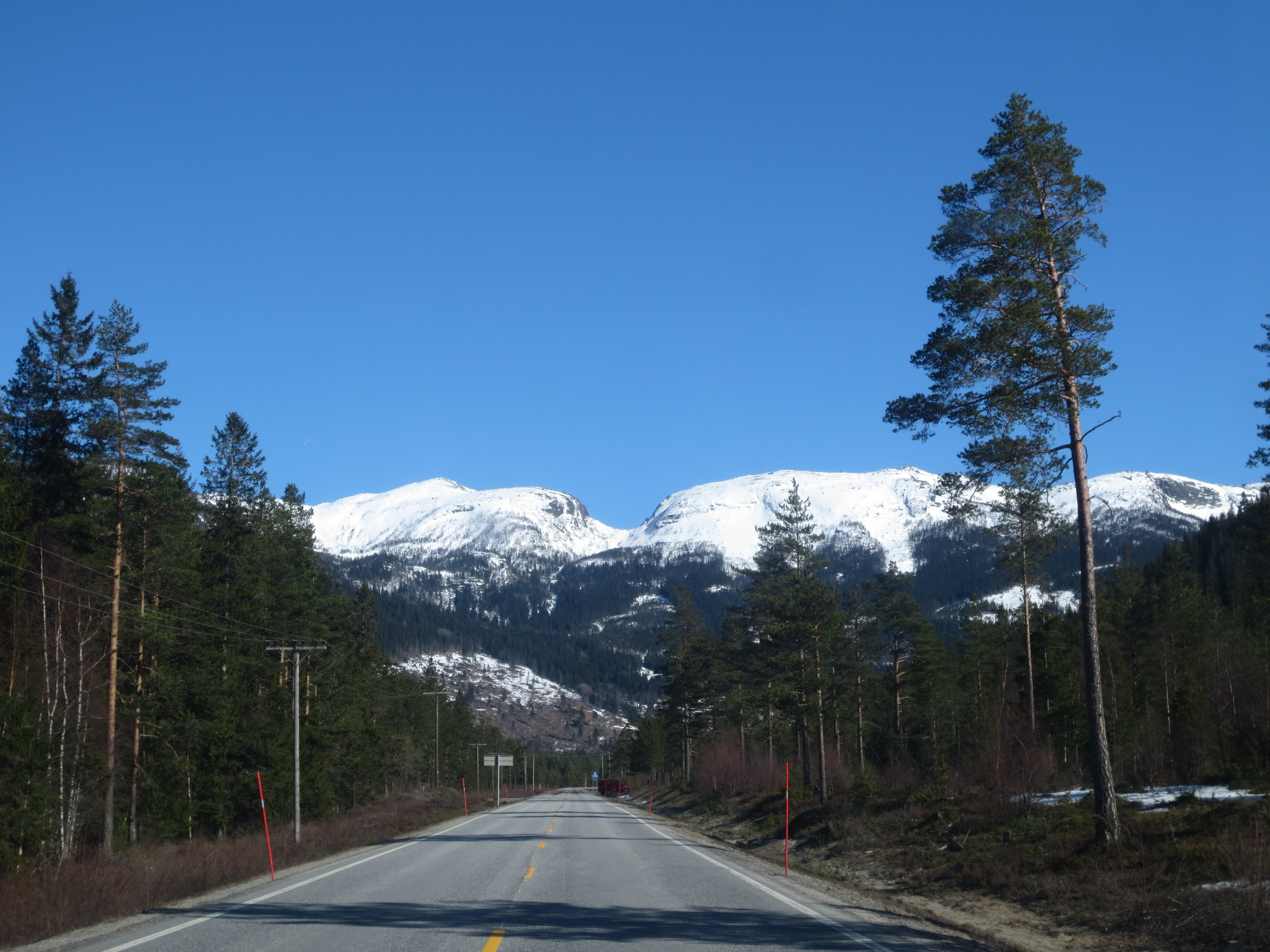 Valle municipality is the second from the north in the Setesdalen valley, Aust-Agder county, Norway.